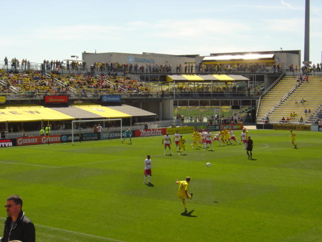 Kirk Urso takes a free kick for the Columbus Crew vs the New York Red Bulls on April 07, 2012